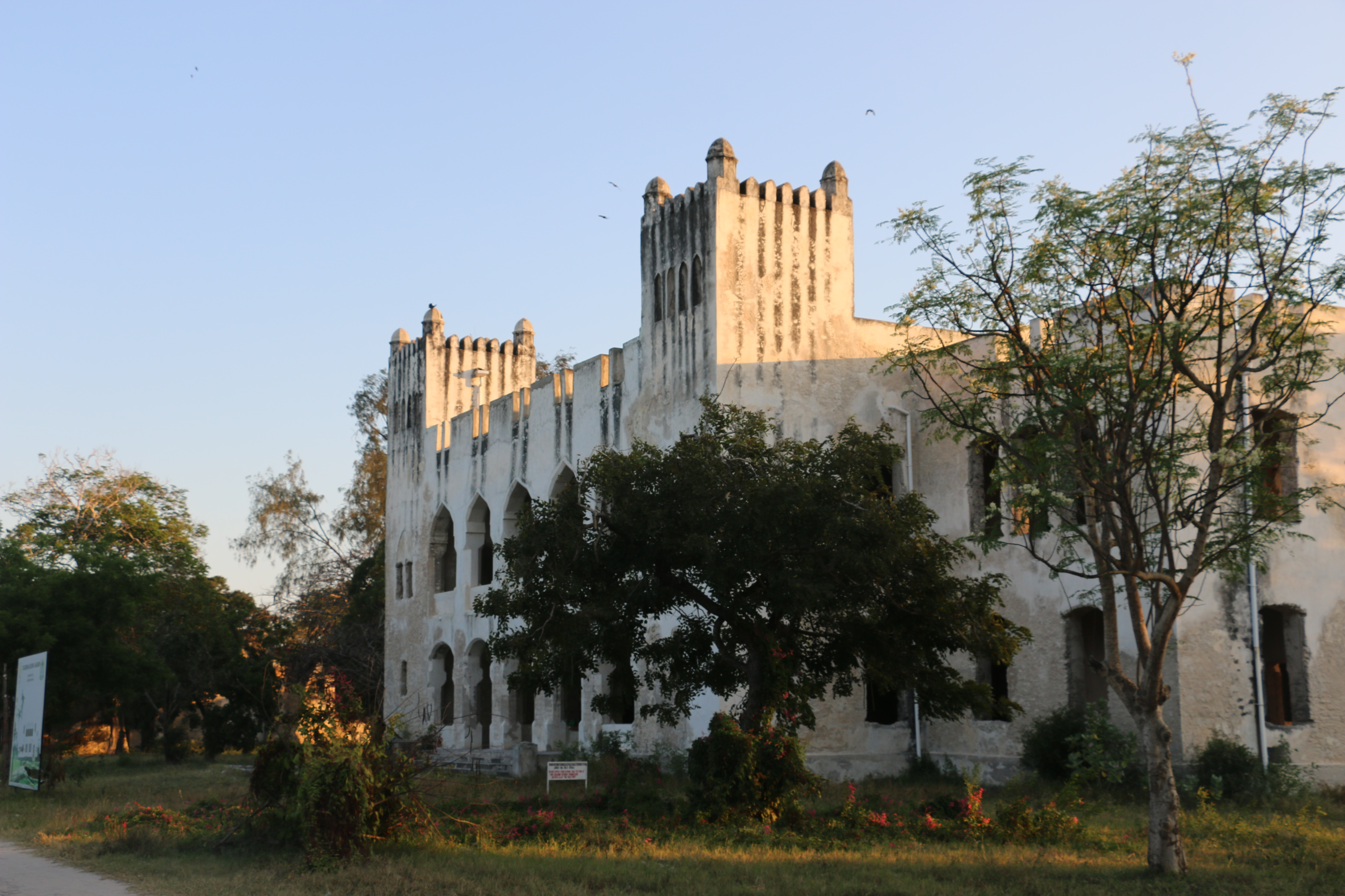 Bagamoyo German Boma exterior view, Bagamoyo Historic Town. Coastal region, Bagamoyo, Tanzania